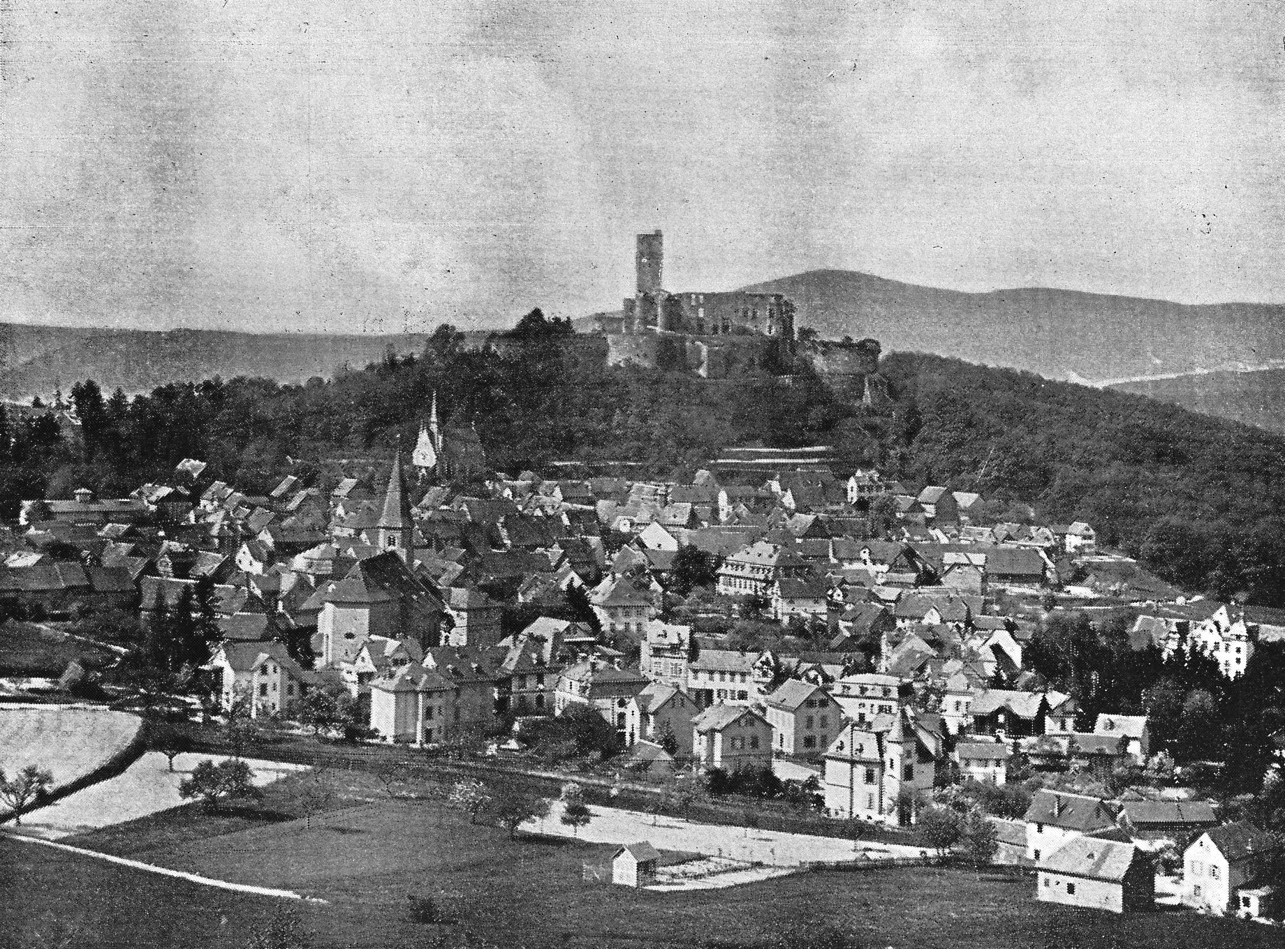 Königstein vom Hildatempel aus XVIII_1689 Bild 3, Bildband von 1900, gescannt vom Hessischen Hauptstaatsarchiv